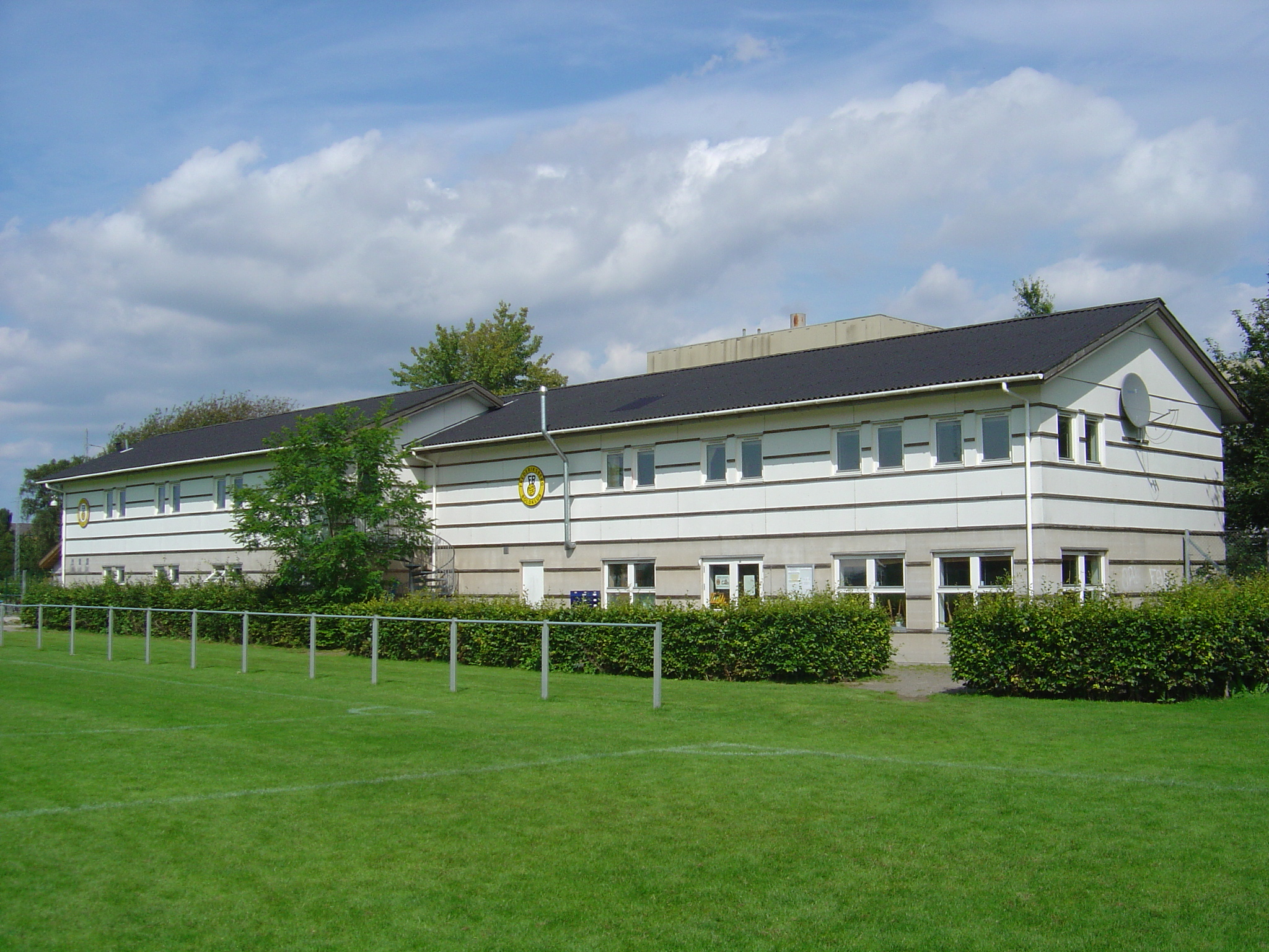 Frederiksberg Boldklub - the club house of a Danish association football club located at the corner of Jens Jessensvej and Troels Lunds Vej, Frederiksberg, Copenhagen. Seen from the southwestern side, on the football fields of Frederiksberg Idrætspark.